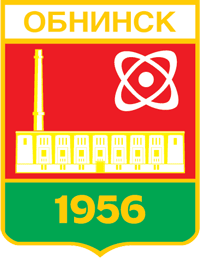 Obninsk (kaluga oblast), coat of arms (1988)